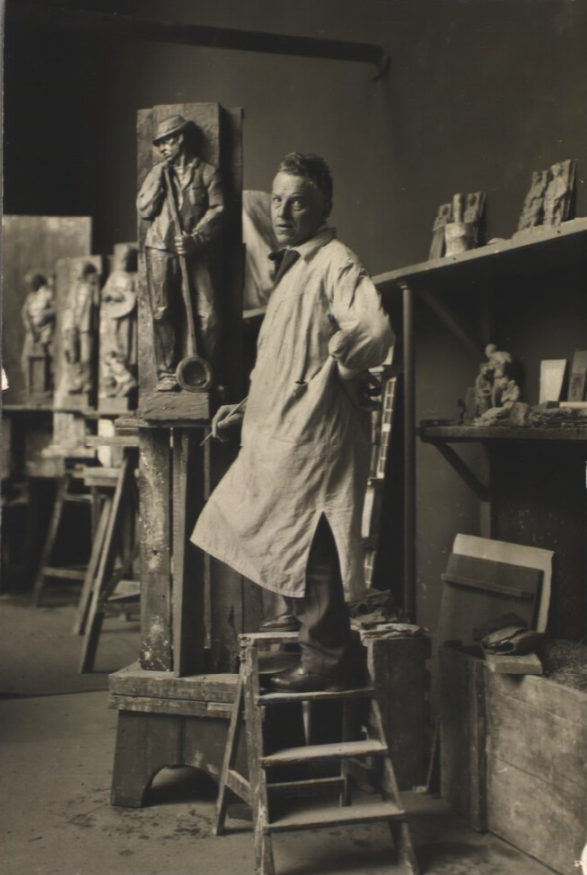 Jens Kund, Danish sculptor